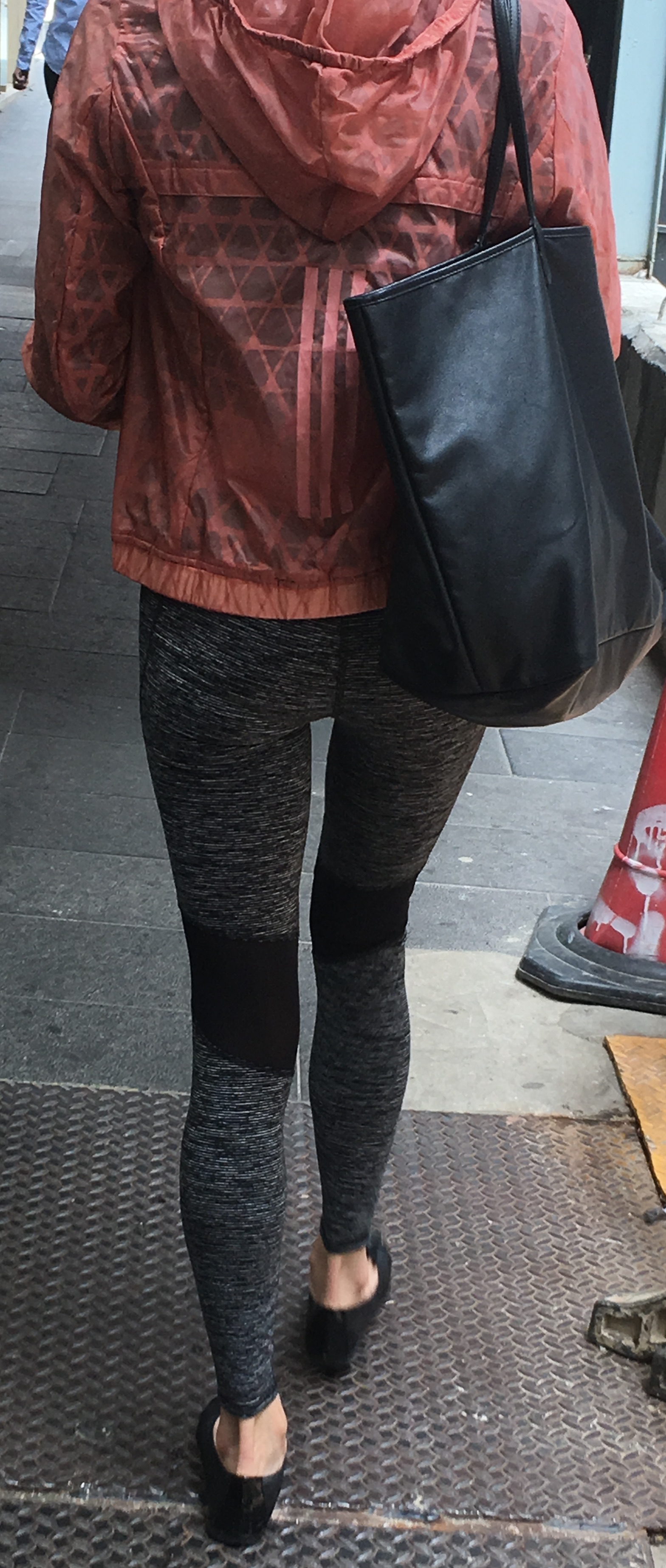 A woman dressed in activewear, with her windbreaker and leggings combination